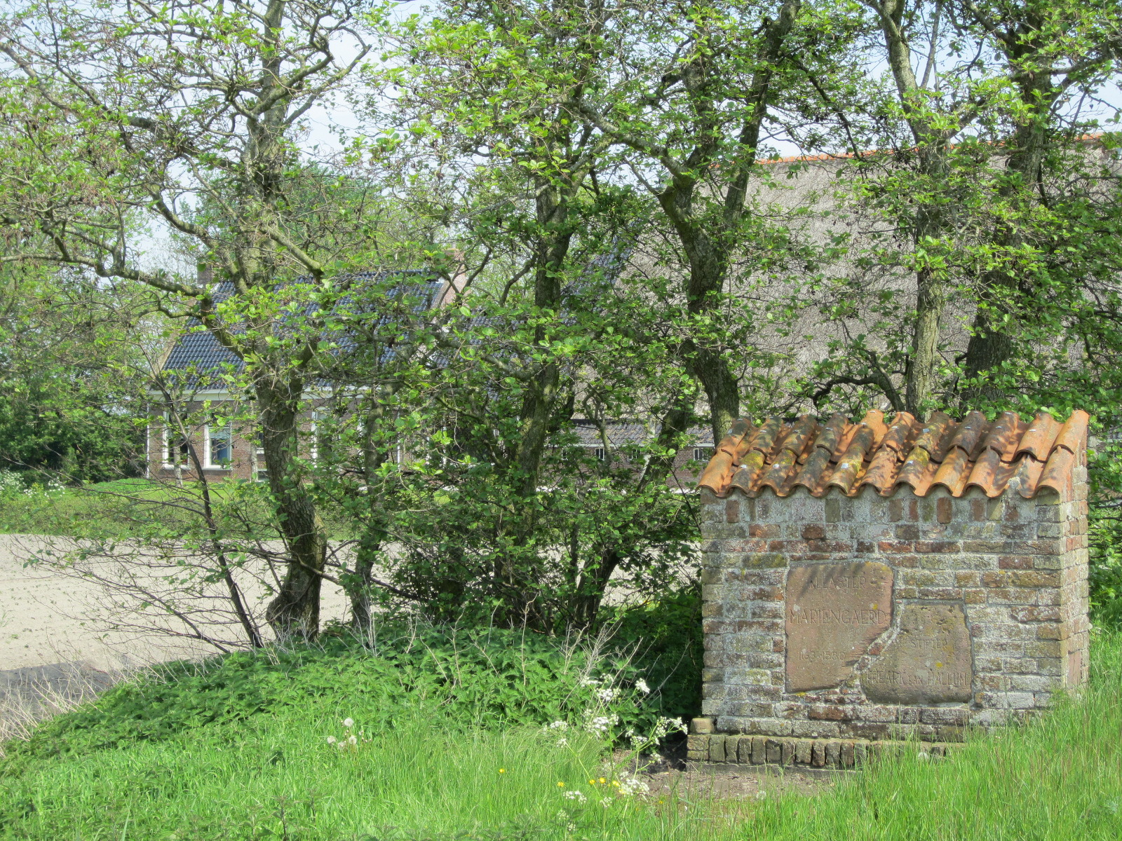 Grounds and monument of former monastery Mariëngaarde, near village Hallum (south of hamlet Halummerhoek), county Friesland, The Netherlands.